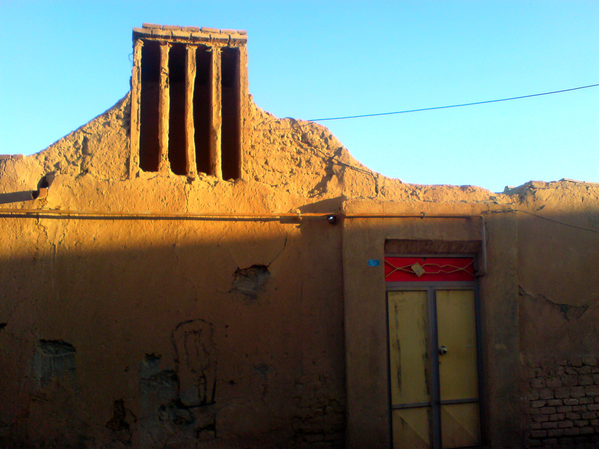 Windcatcher in Kashmar